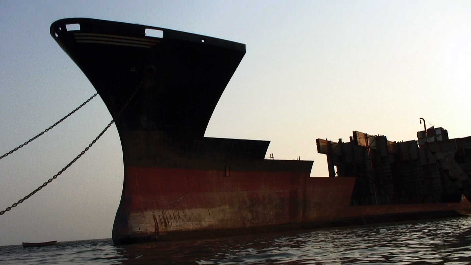 SHIPWRECK •Documentary 2010 •Dir. Javier Gómez Serrano •Prod. Stéphane M. Grueso •elegant mob films / TVE / Odisea •1 x 58' / color / stereo •HD - HDCAM Shipwreck is the story of Jahur and Lamu, men that work at the ship yards breaking vessels in Chittagong, a coastal province of Bangladesh# This is the story of ordinary Bengali men struggling to raise their families against a backdrop of labor uncertainty, health hazards unknown to us, and salaries that make them the most competitive labor force in the world# Jahur is a cutter, a crafted worker that slices down the ships day and night# He sits at the top of the job positions in the yard# Lamu is older but strong, he is one of those workers that lift and carry steel planks all day# The three of them represent the whole of the man power assembled in the yards# This is their story#